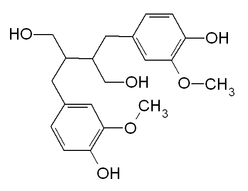 Chemical structure of Secoisolariciresinol